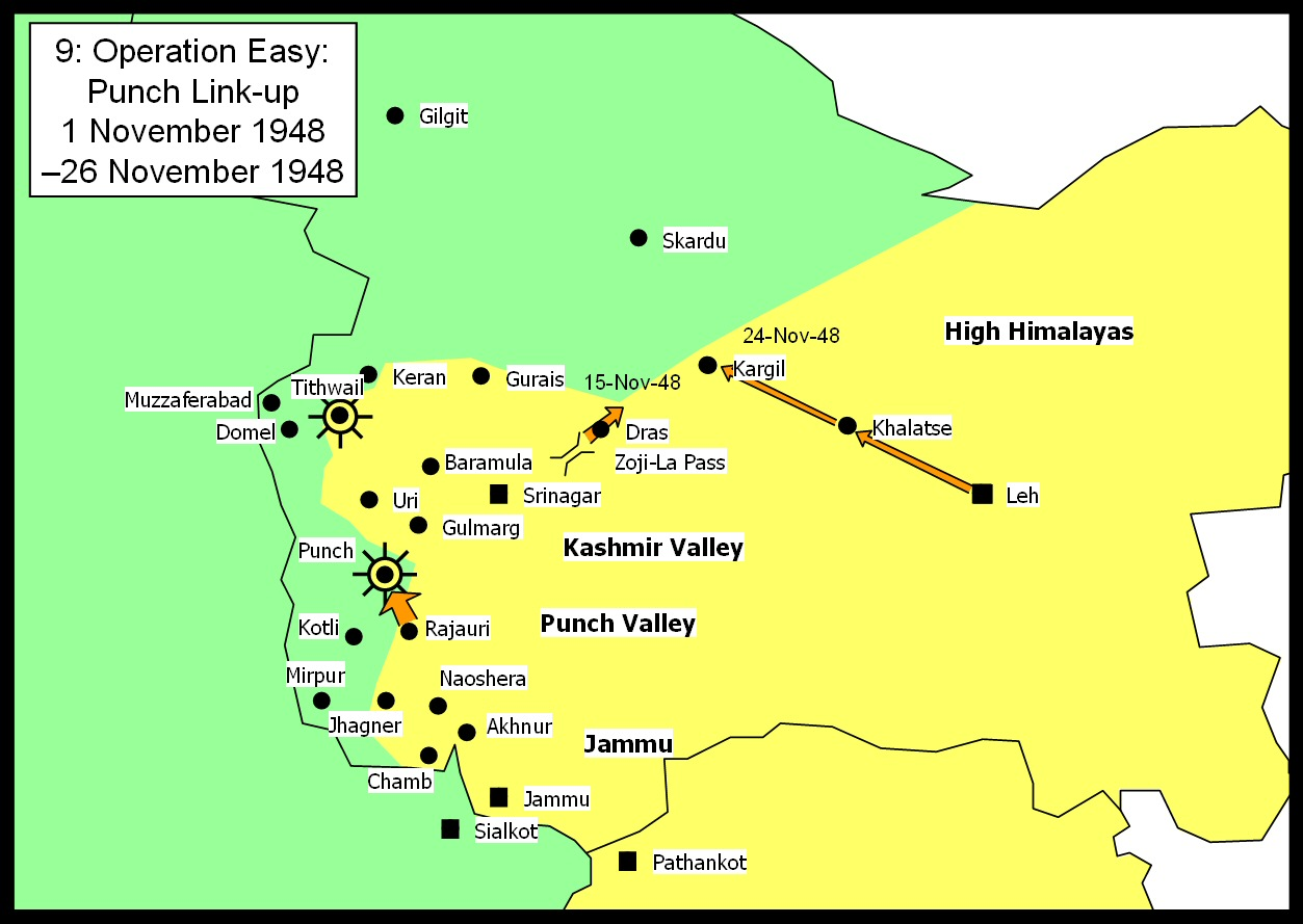 Author Mike Young